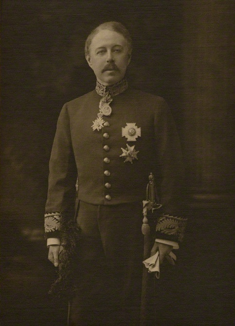 by Carl Vandyk, vintage print, circa 1910